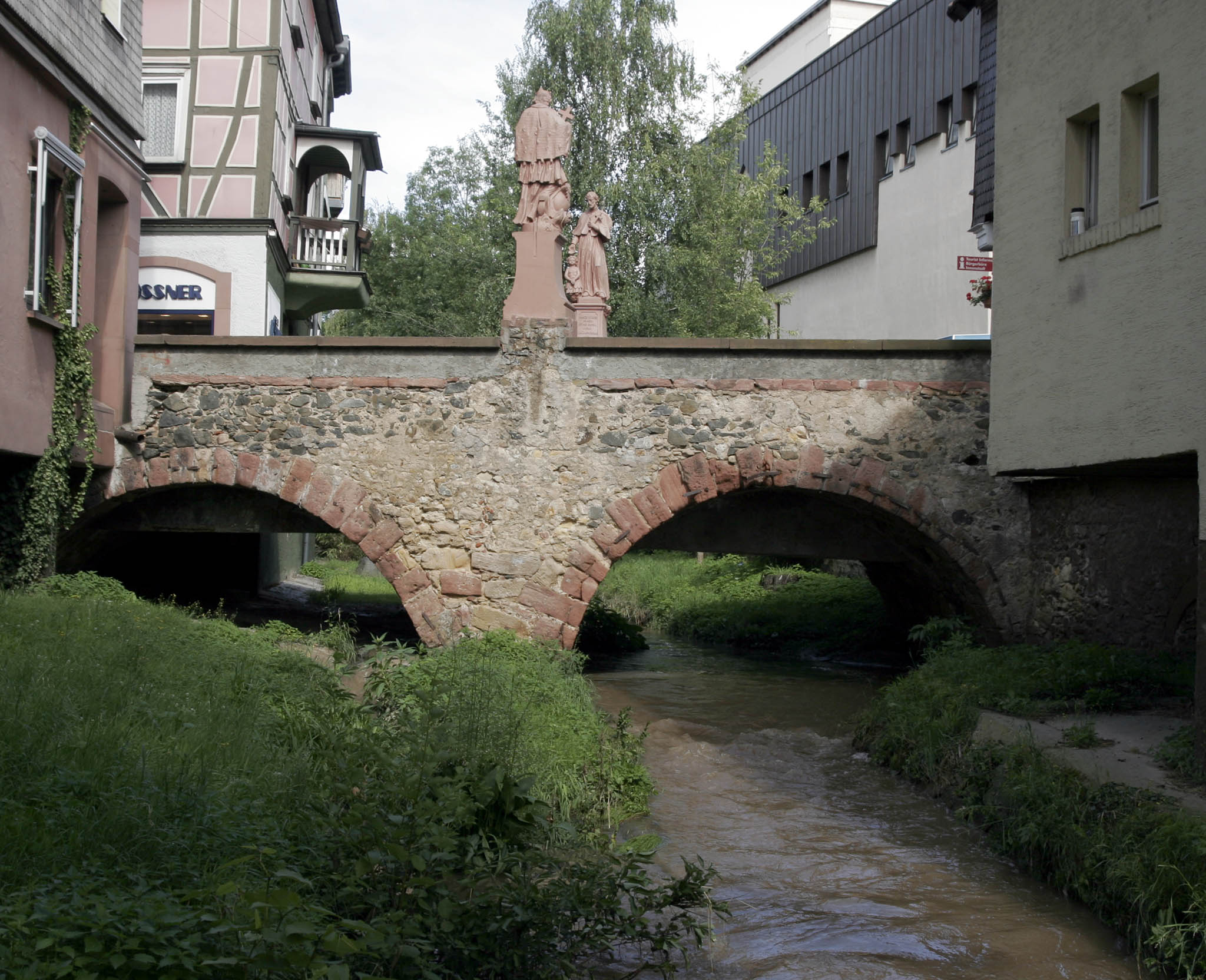 The Lauter creek in South-Hesse and the "Mittelbrücke" in the center of Bensheim.